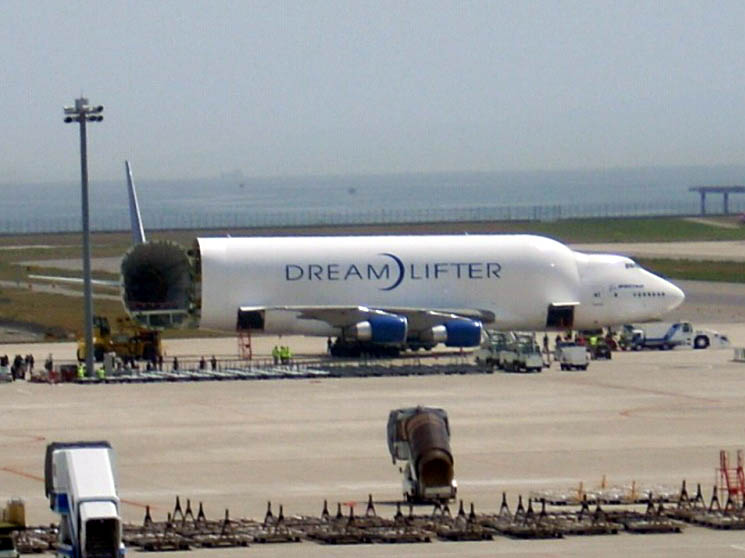 A picture of the Boeing 747 Dreamlifter